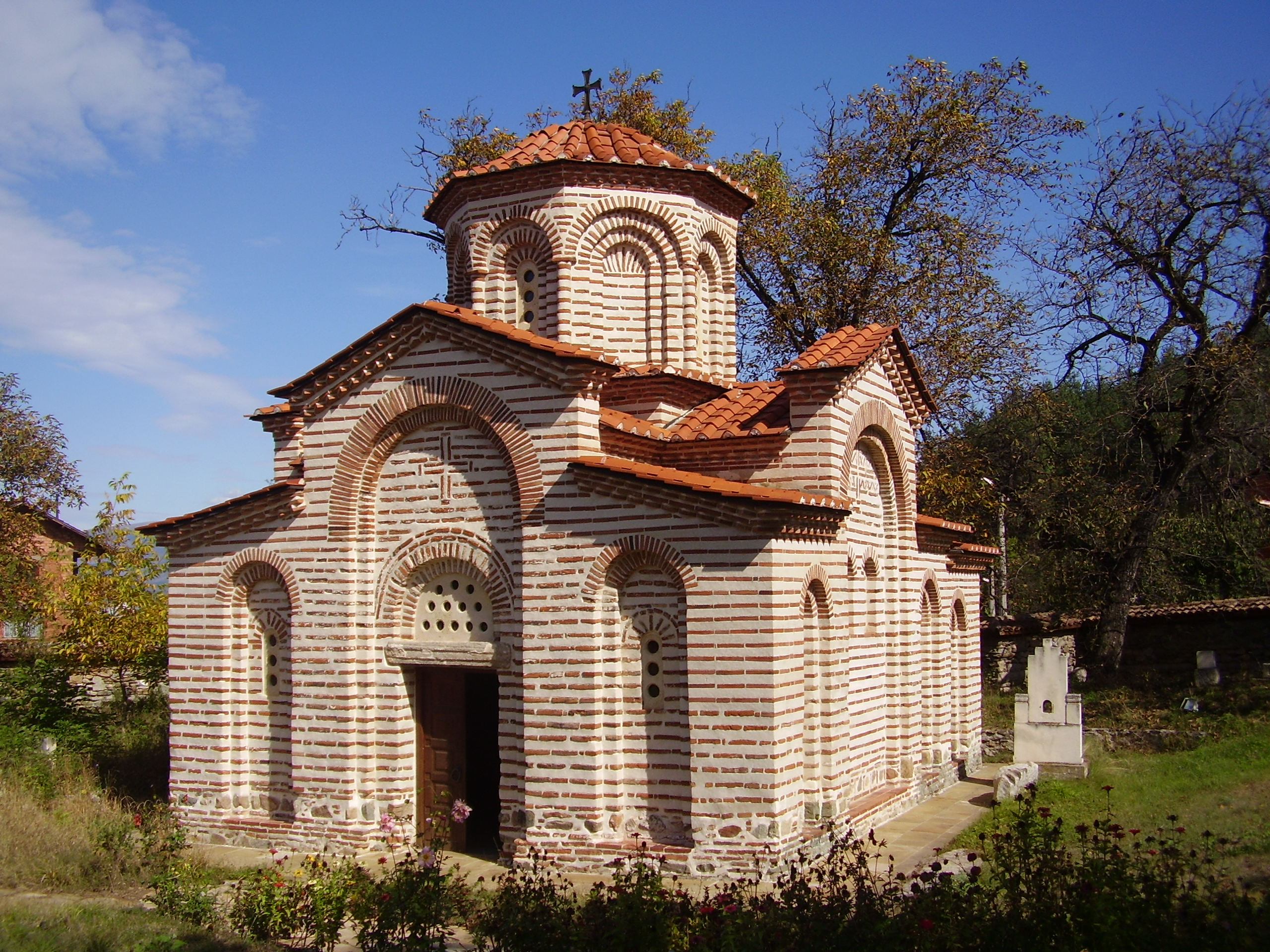 Church "Saint George" in Kyustendil, Bulgaria